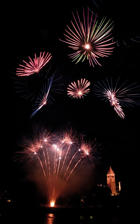 Music Fireworks over Norrköping, Sweden